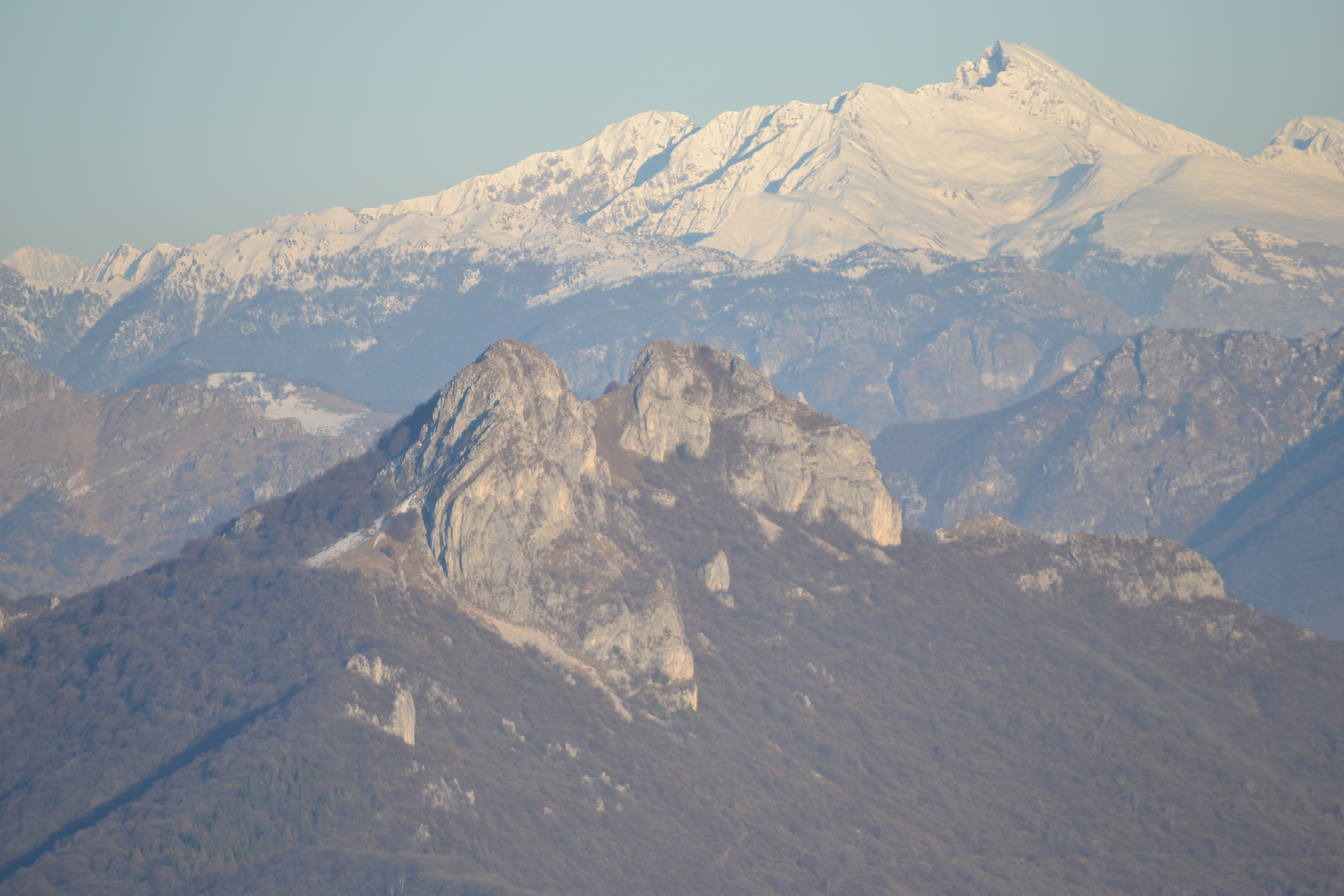 view of Corni di Canzo mountains from monte Bollettone